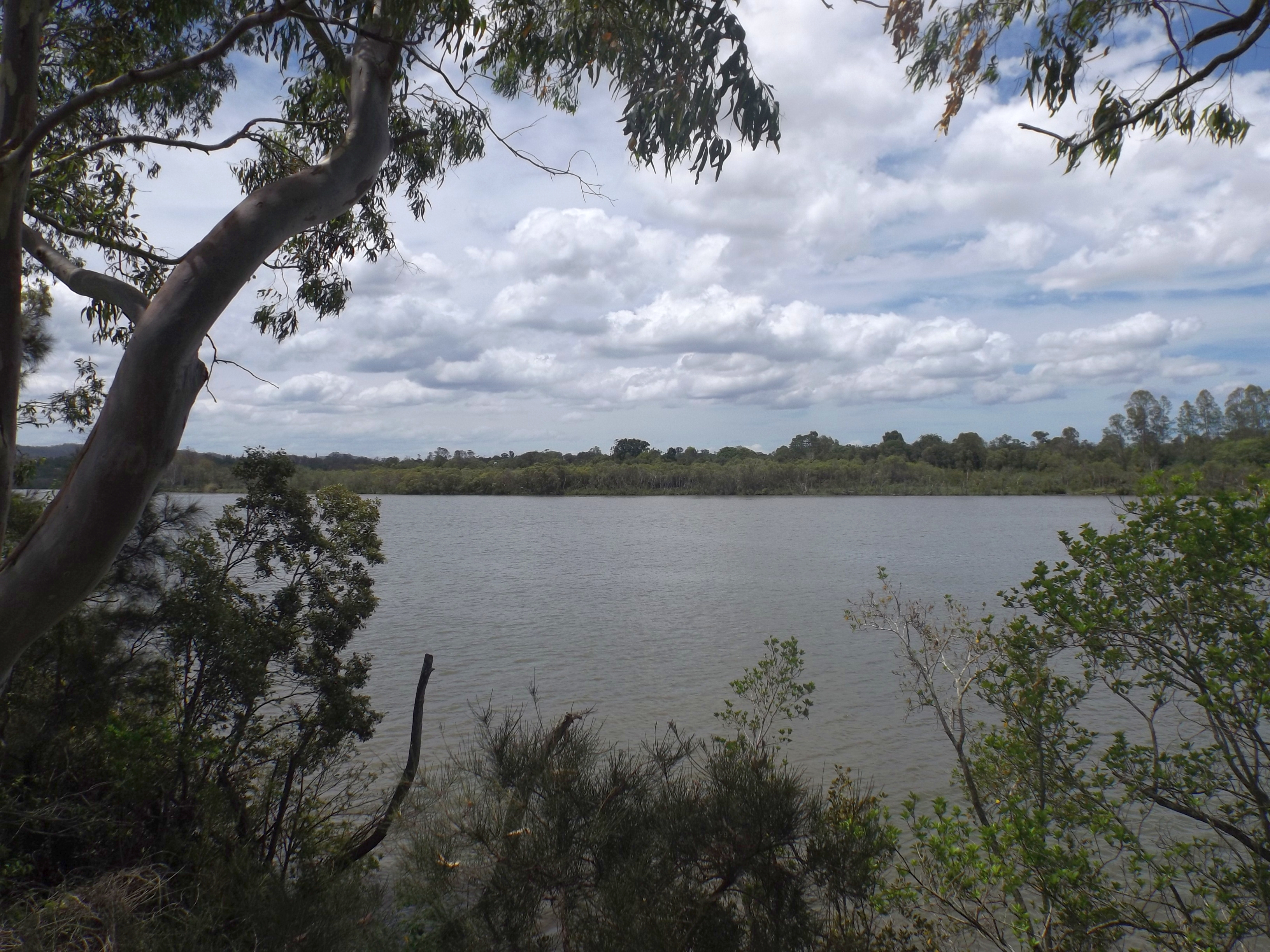 Photo of Indooroopilly Island Conservation Park as seen from Graceville Riverside Parklands in Graceville, Brisbane, Queensland, Australia.